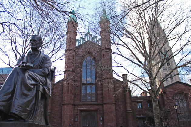 Dwight Hall Frontal